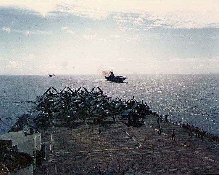 View looking aft from the ship's island as she steams with other carriers during a western Pacific gunnery practice session, circa June 1945. Next ship astern is USS Bon Homme Richard (CV-31), firing her 5"/38 battery to starboard. Two small aircraft carriers (CVL) are beyond her. Note yellow flight deck markings on Hornet and TBM and SB2C aircraft parked aft.